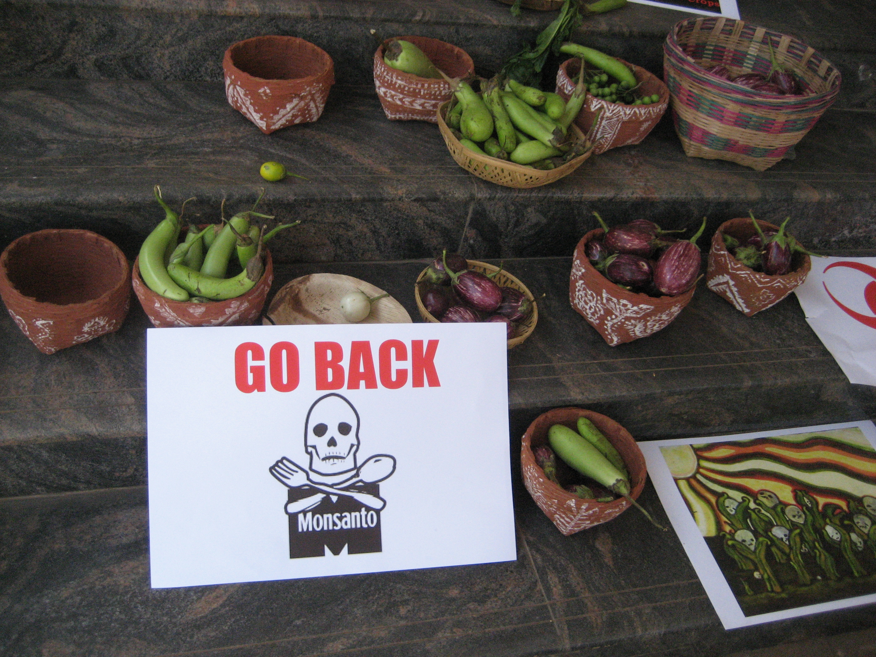 Baskets of many different kind of Brinjal (aka "Eggplant") put out by protesters during the listening tour of India's environment minister relating to the introduction of BT Brinjal. Spring 2010 in Bangalore, India. One sign singling out Monsanto.